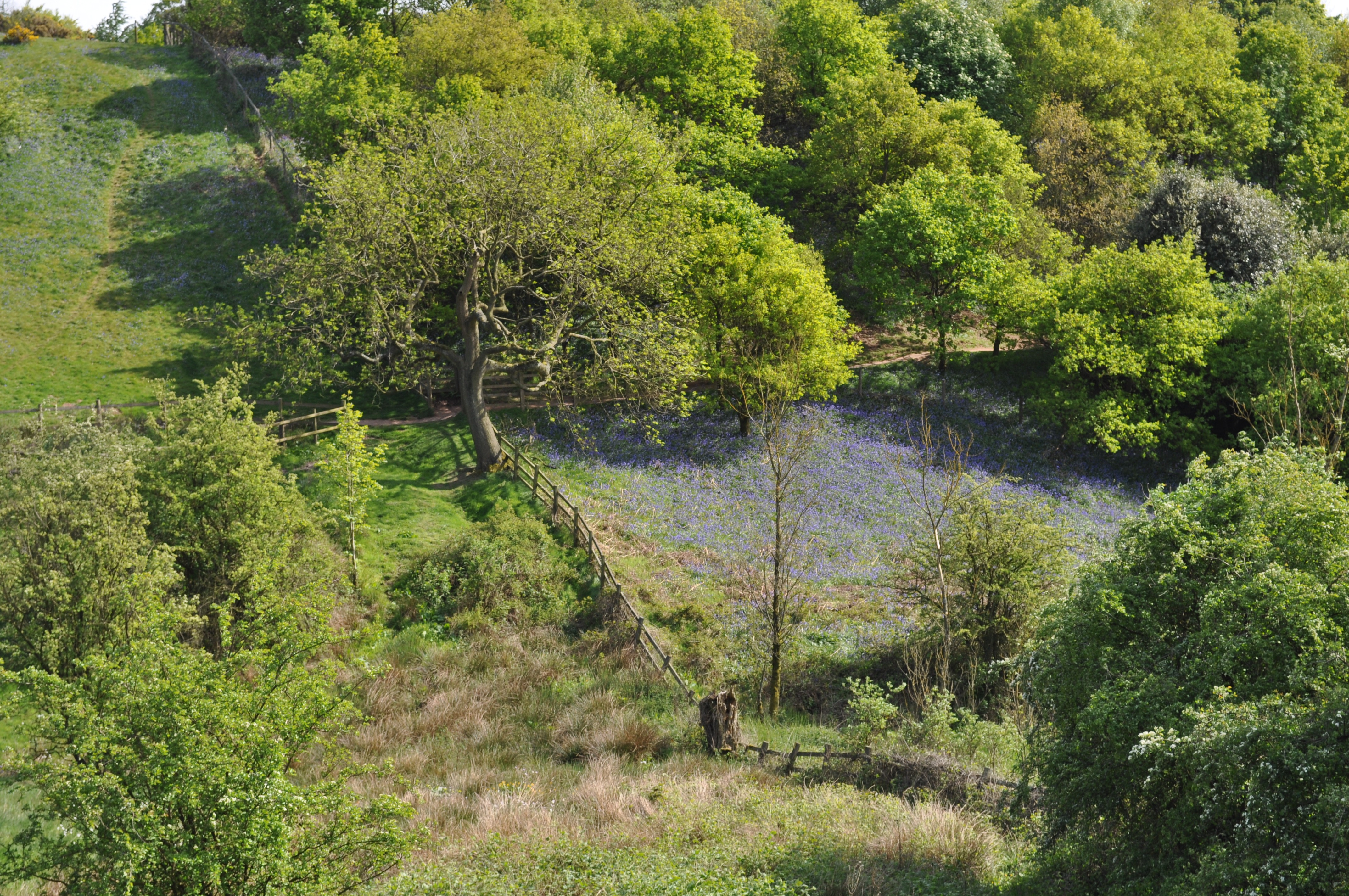 View of Waseley Hills Country Park, northern Worcesteshire, England